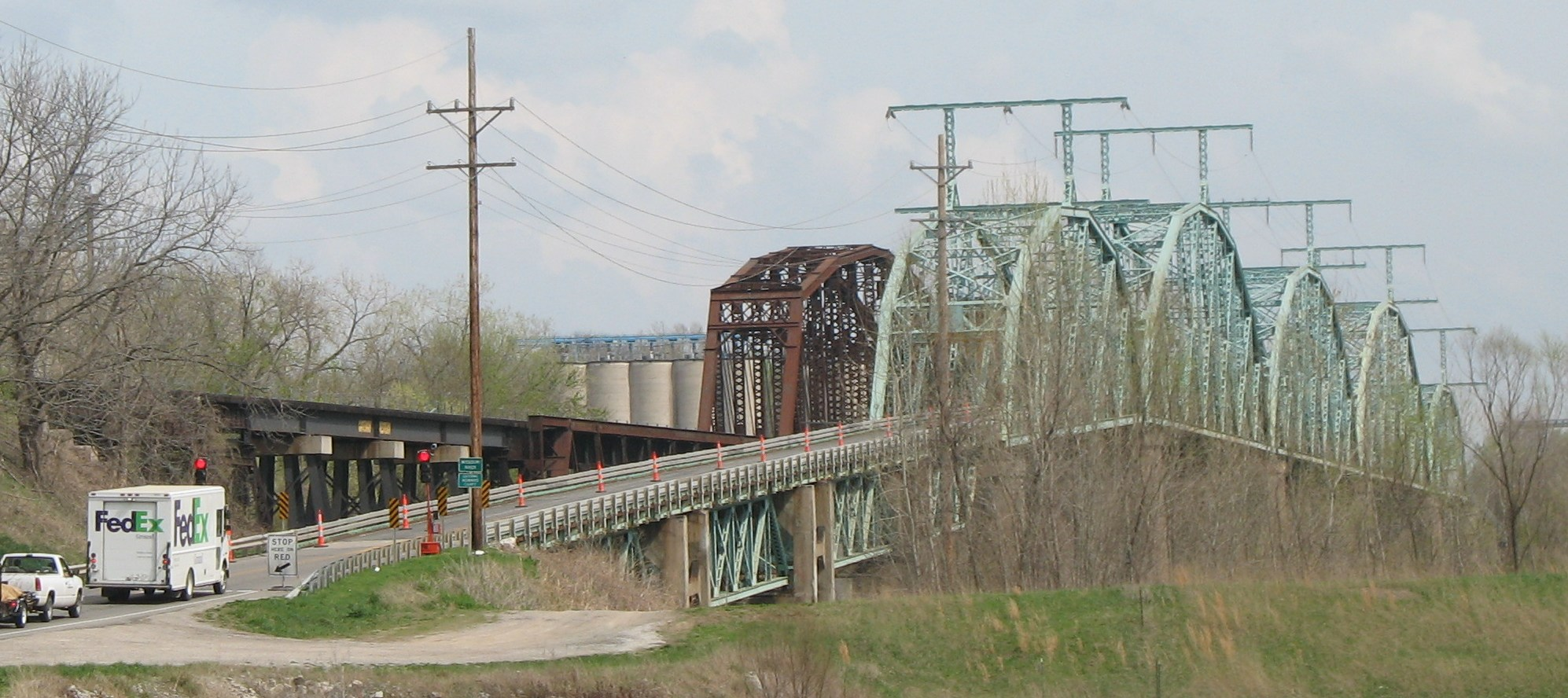 Glasgow Bridge (now single lane with a traffic light on both sides) along with the rail bridge in March 2007.